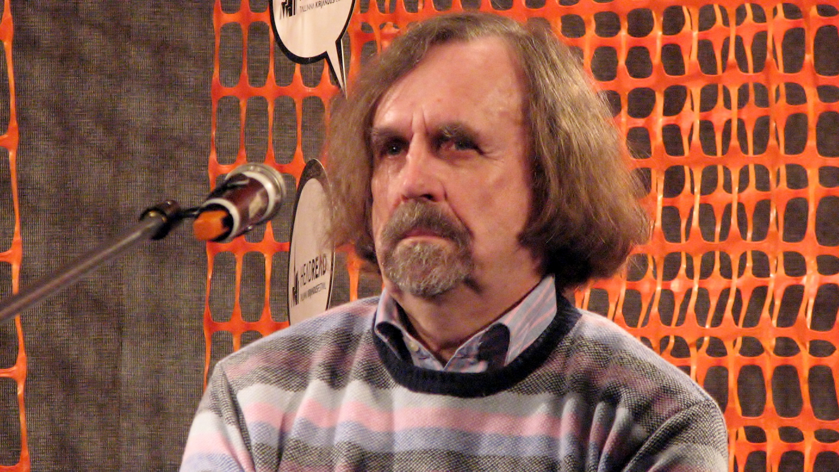 Rein Põder performing during literature festival HeadRead